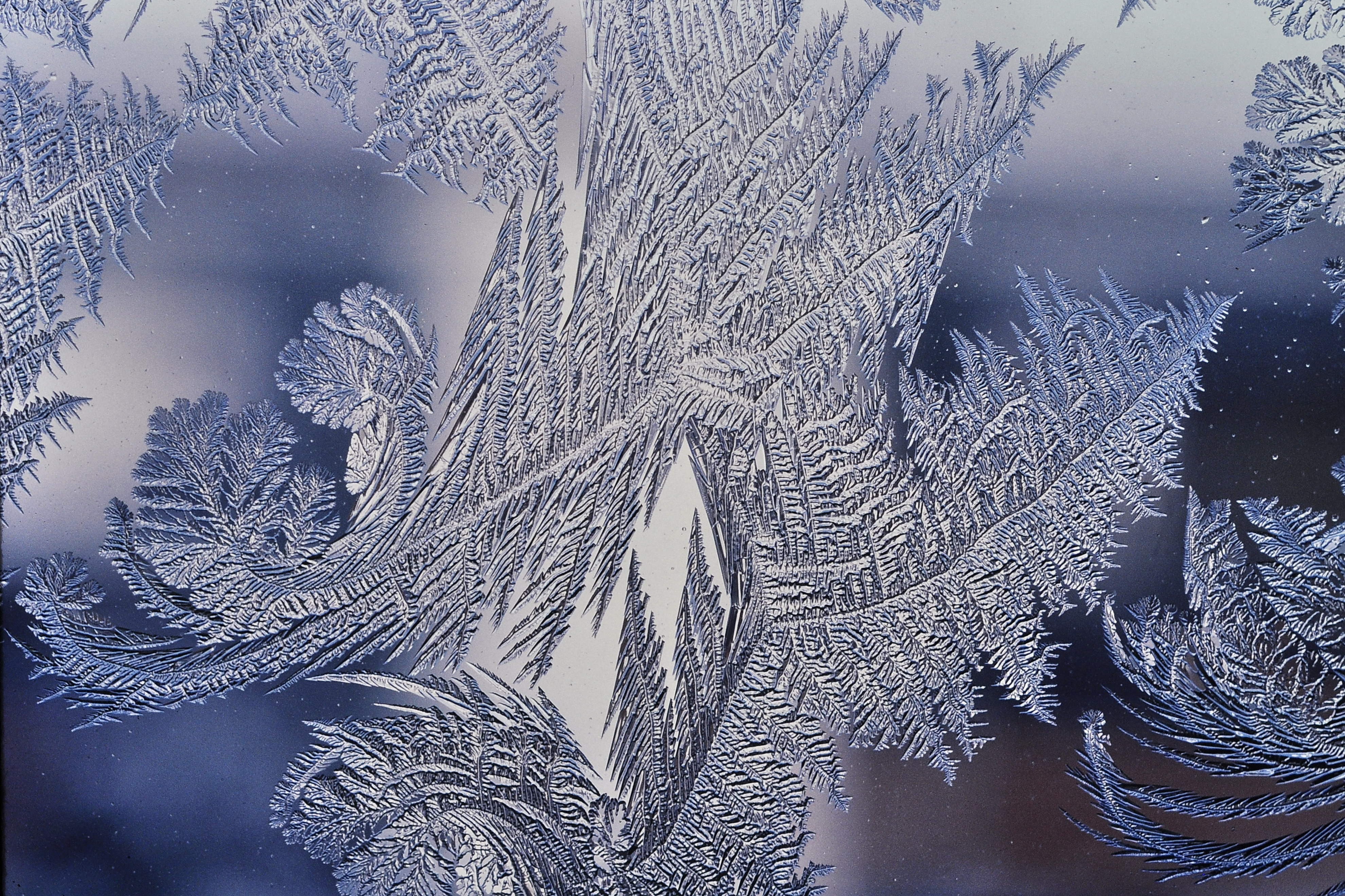 Ice-ferns